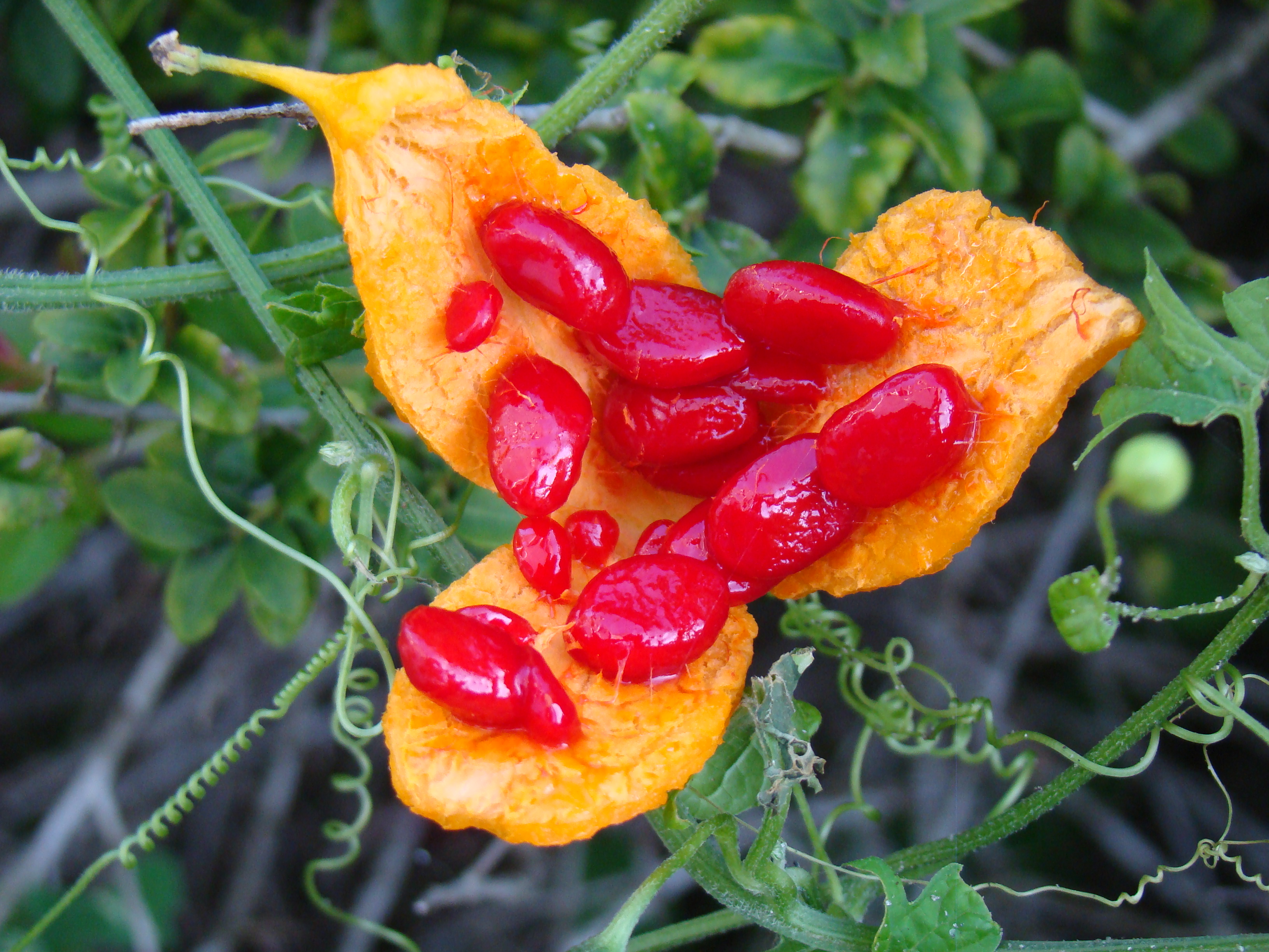 The typical 3-section configuration when an overripe fruit cracks open exposing the red seeds, on a Balsam Pear vine (Momordica balsamina / Cucurbitaceae) in the Merritt Island National Wildlife Refuge, Merritt Island, Florida.